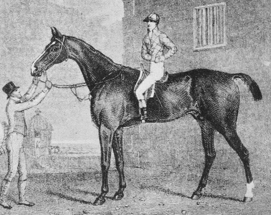 Blacklock